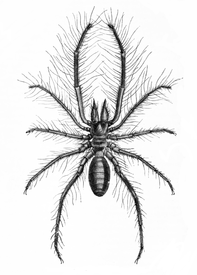 Male of Persian false spider, Galeodes.